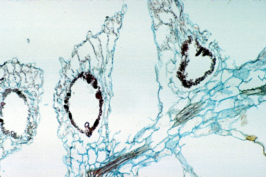 Light micrograph of a longitudinal section of Azolla, showing the cyanobacterium Anabaena in leaf pockets